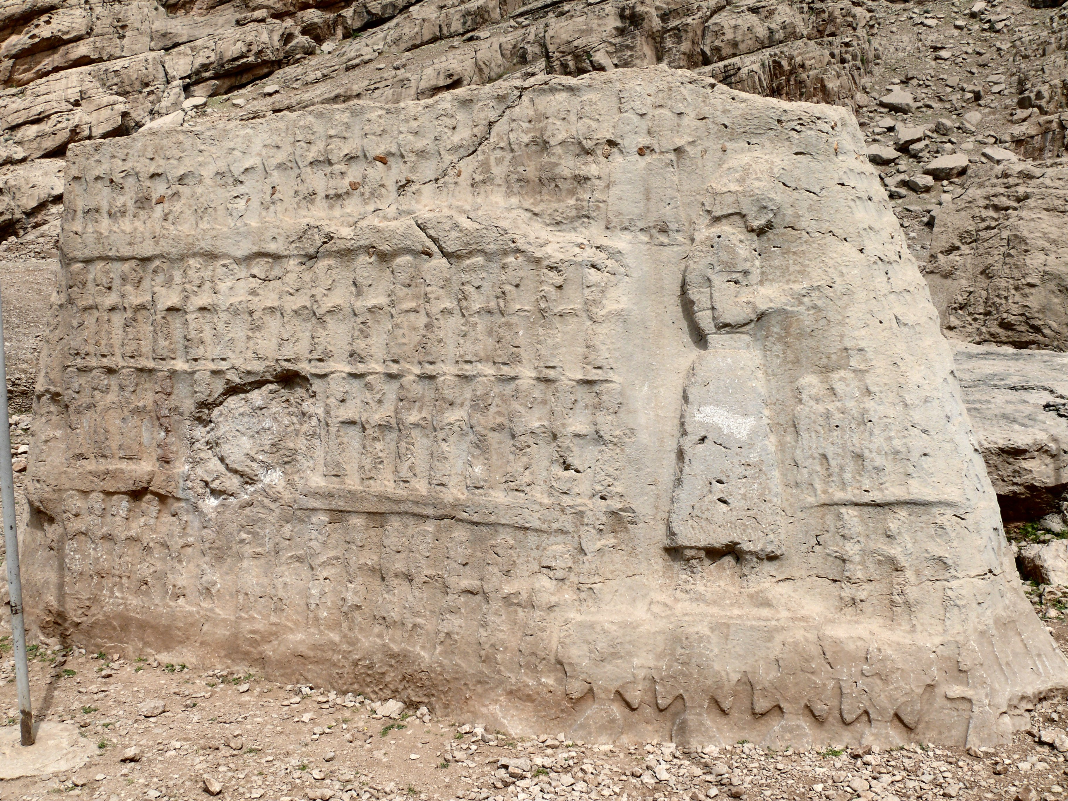 South side of the elamite rock relief said “Kul-e farah III” depicting a religious office with animal sacrifice (Indian bulls) with representation of a Priest, king, and prayers. VIIIth to VIIth century BCE. Site of Kul-e Farah, city of Izeh, Khouzestan province, Iran